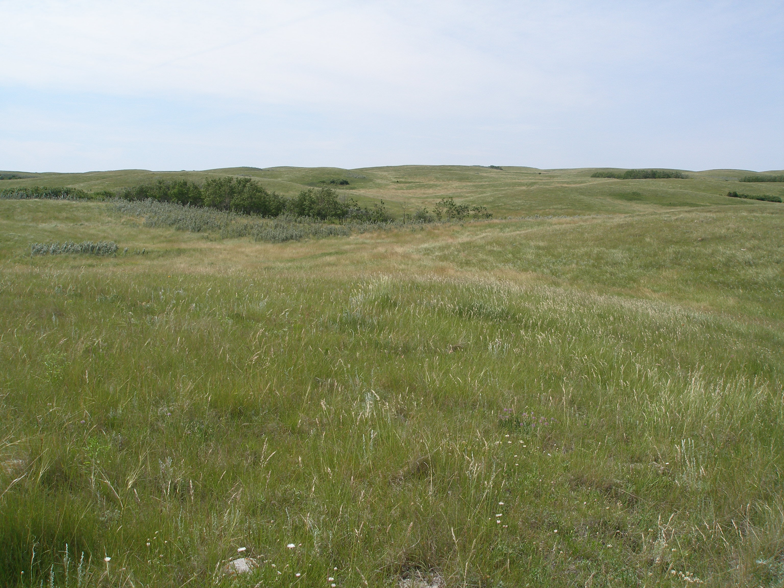 Amazing native grasslands in the Missouri Coteau, Saskatchewan. The Canadian Prairies rolling hills of Missouri Coteau are filled with pothole wetlands making it one of the most important areas for waterfowl in North America. Many of the flowers and grasses were in flower this day. Full of Stipa's, Agropyron's and Bouteloua's oh my!! Needle and Thread, Western Wheatgrass, June Grass and Blue Grama dominated this property. This site has been protected by the Nature Conservancy of Canada by a conservation easement.